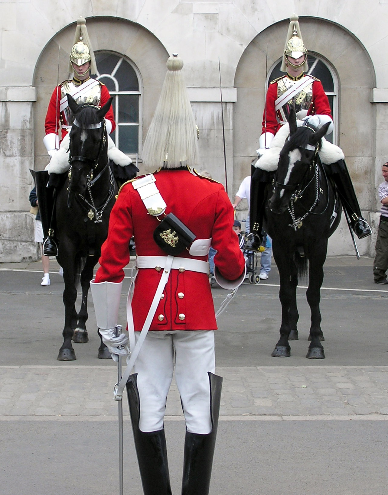 Part of the ceremony of the Changing of the Guard in Whitehall, London, England. Photographed by Adrian Pingstone in June 2005 and released to the public domain.